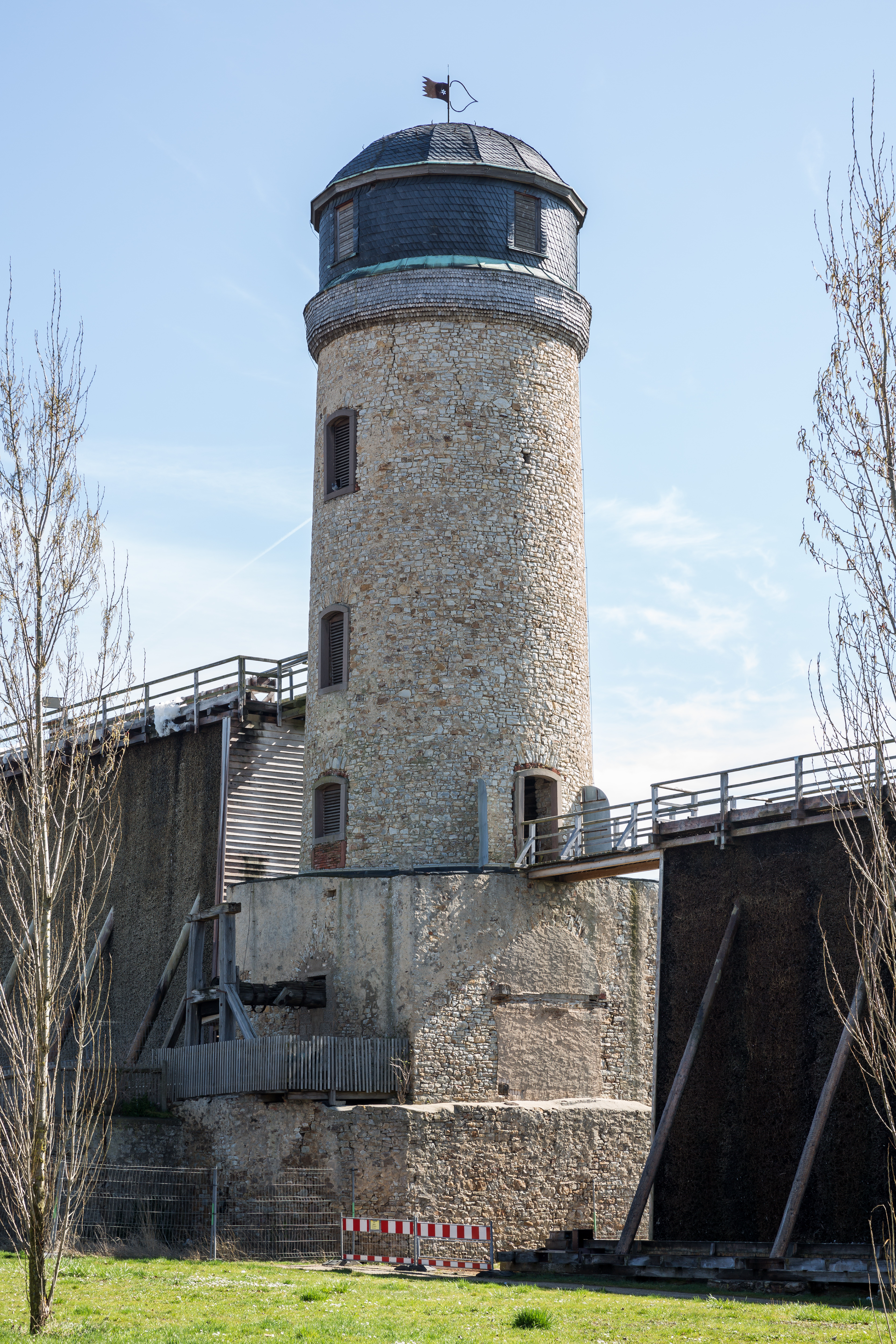 Bad Nauheim: Windmill Tower inbetween the Gradierbauten IV/V (Graduation Towers IV/V), the so called Lange Wand (Great Wall) as seen from the northwest